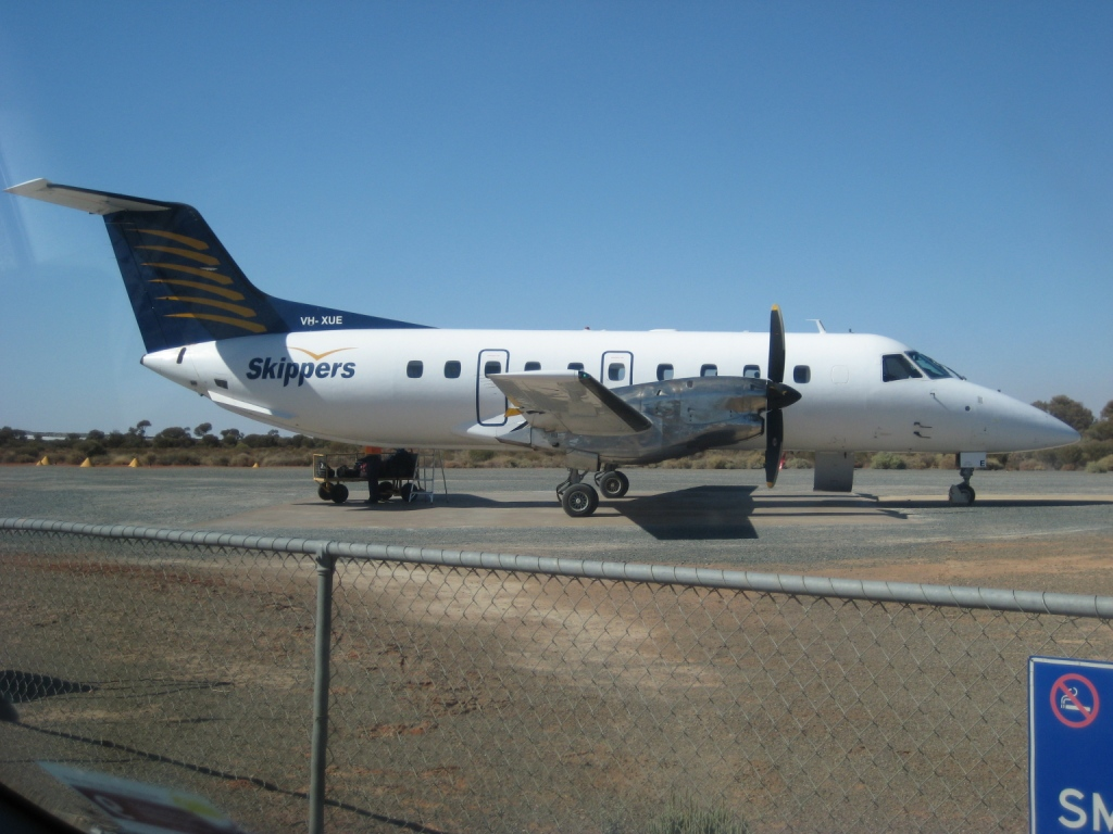 Skippers Aviation Embraer EMB 120 Brasilia at Sunrise Dam Gold Mine, 30 December 2009.